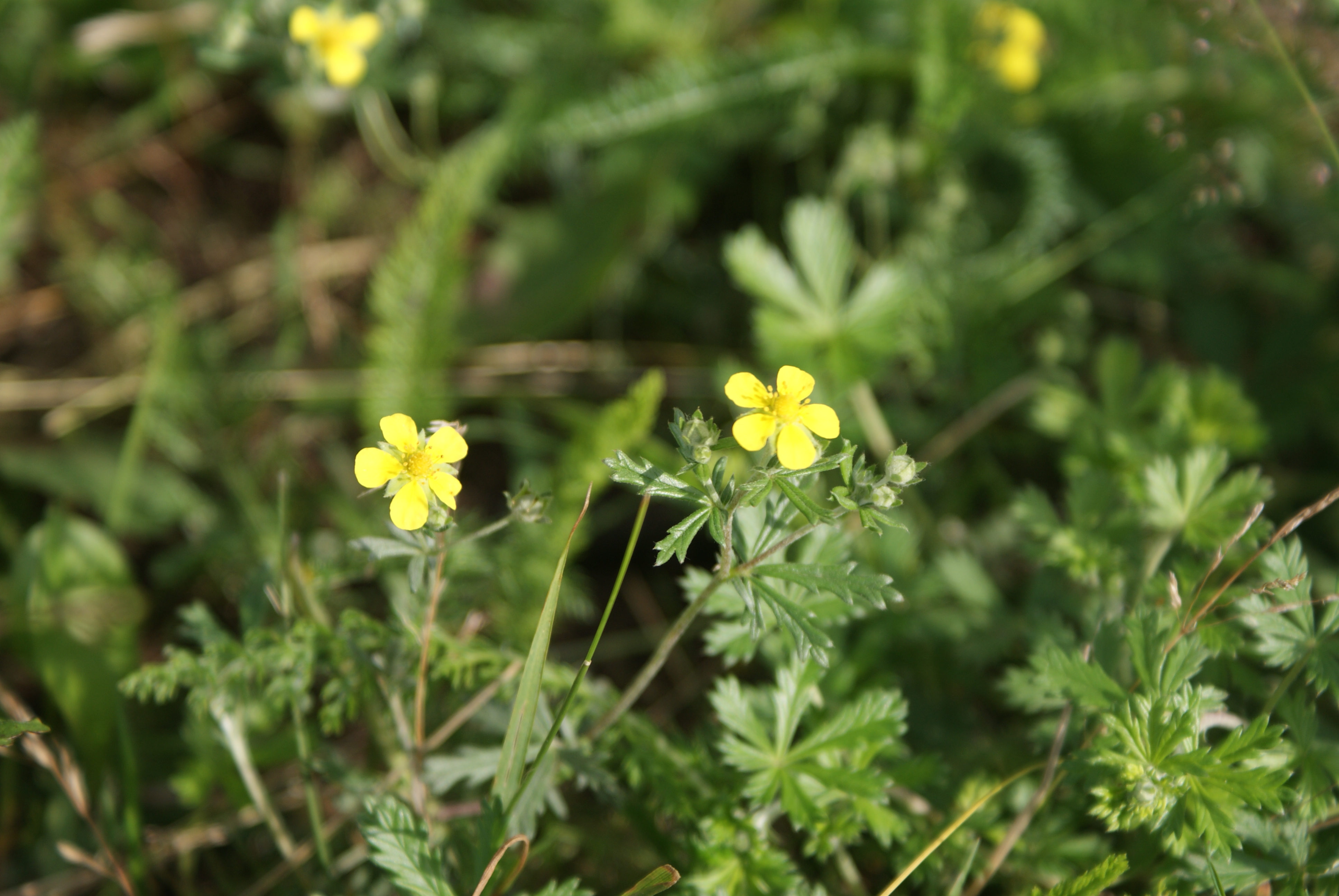 Potentilla argentea (seen at Slavgorod, north of Gomel, Belarus)